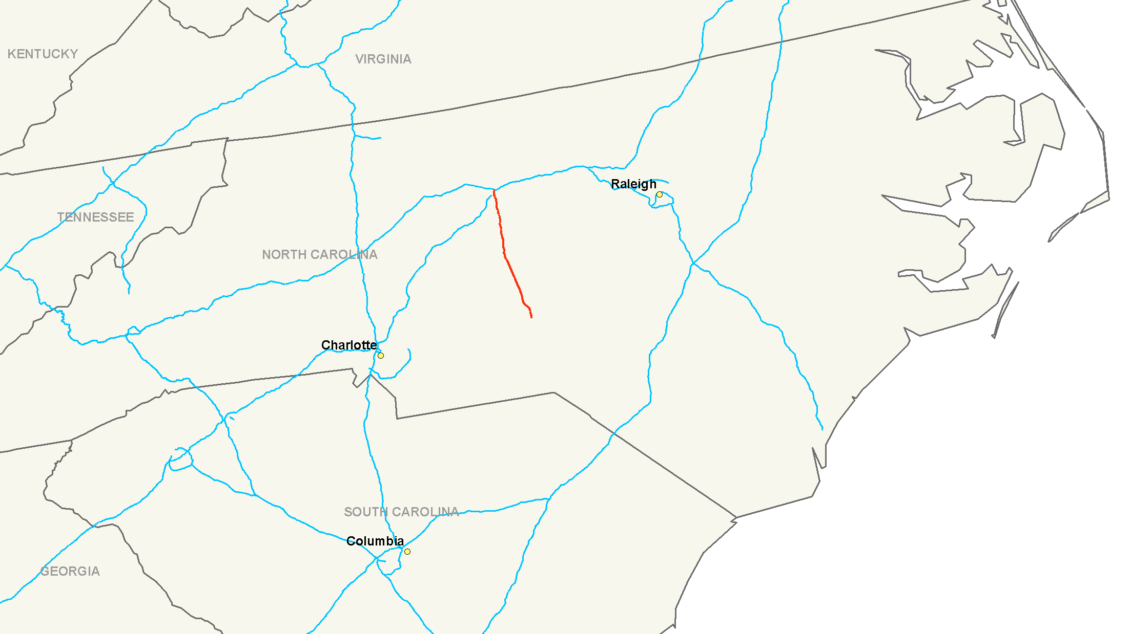 Map of Interstate 73